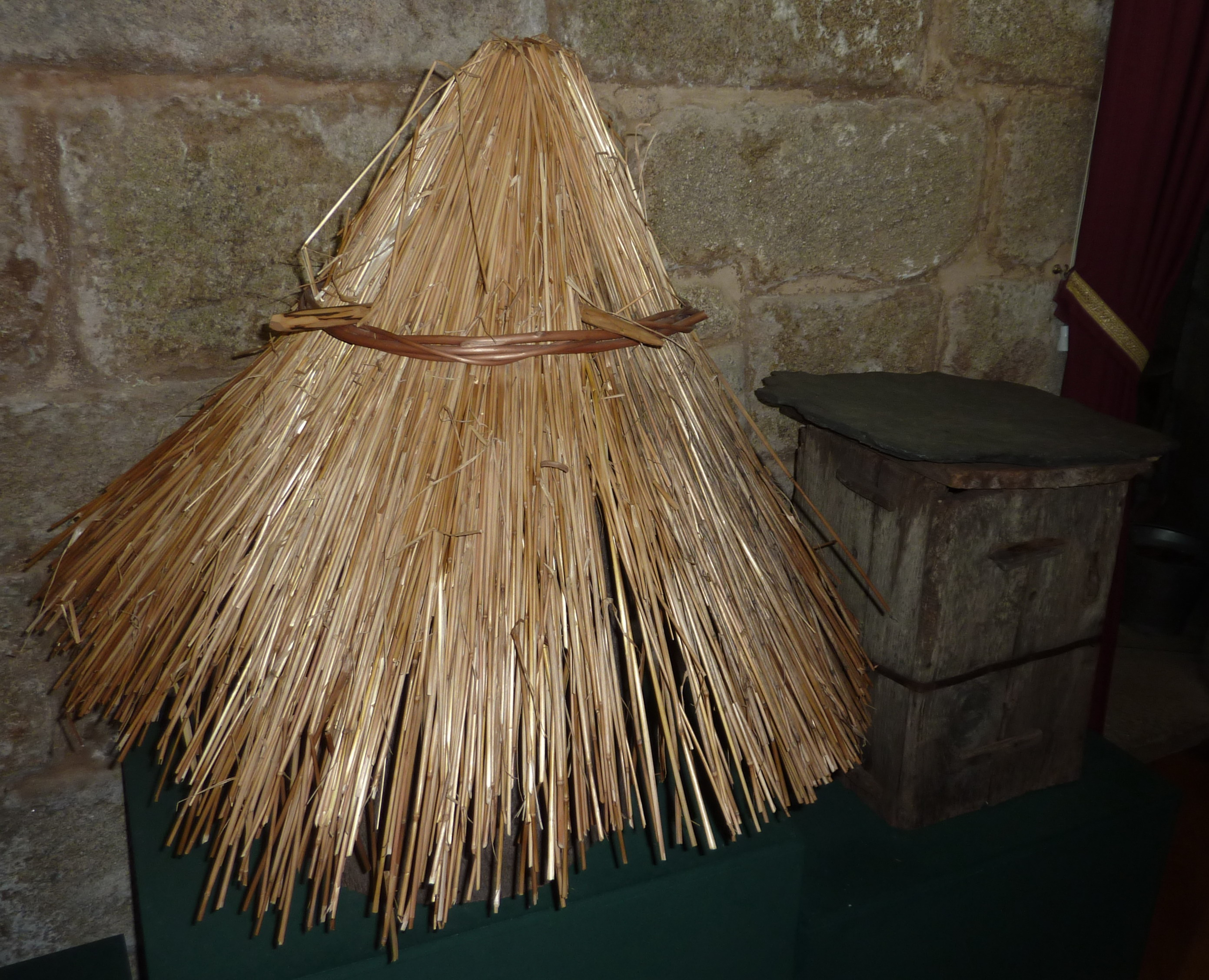 A pair of Galician beehives or trobos.